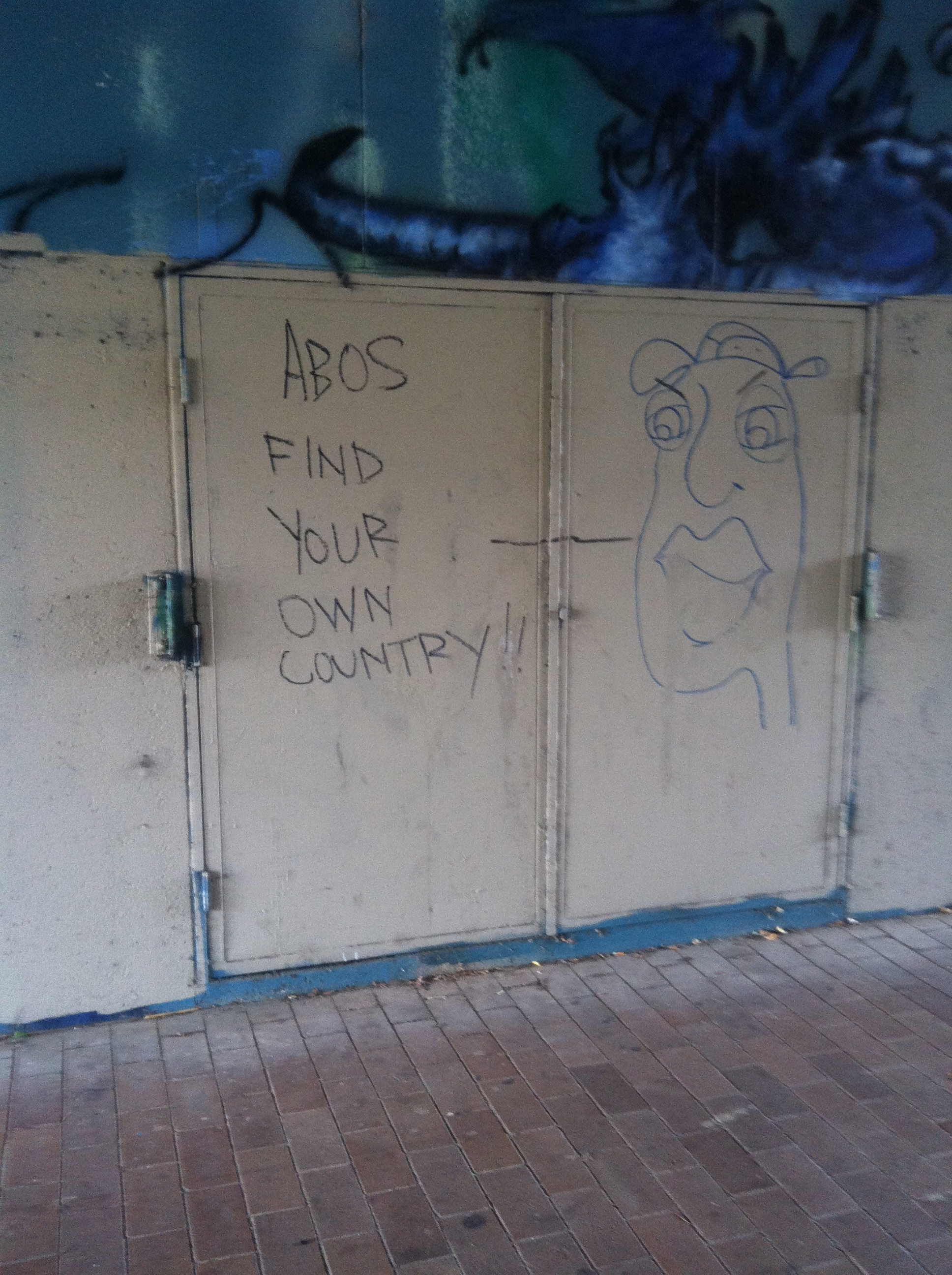 Anti-Aboriginal graffiti that appeared in Belconnen, after the Australia Day confrontation between Aboriginals and Tony Abbott.